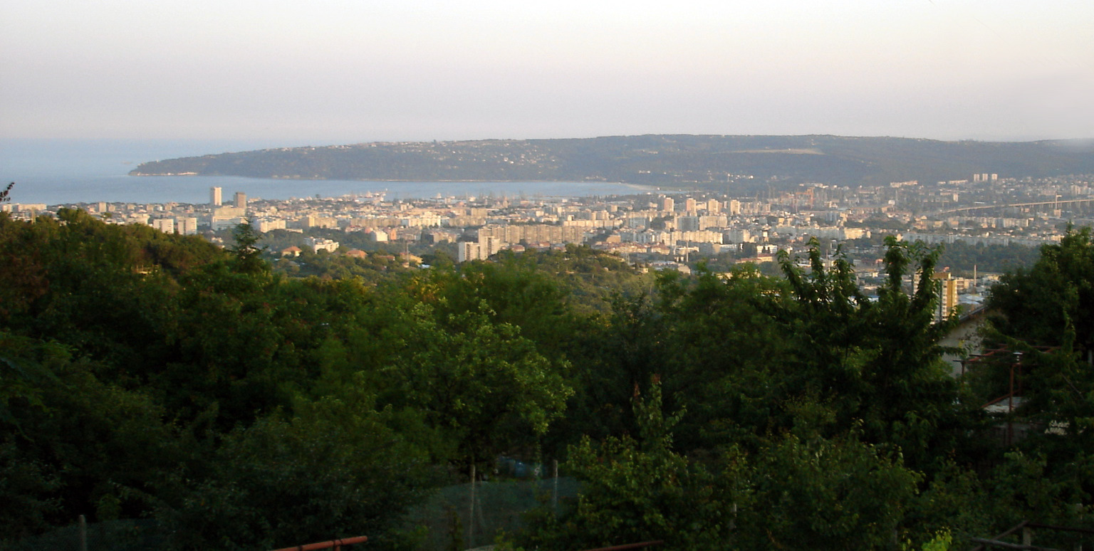 View from the Varna plateau towards Galata estate and cape Galata. Varna, Bulgaria